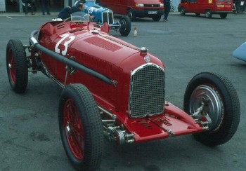 Alfa Romeo P3 1932-1935. Scuderia Ferrari were the works Alfa Romeo team for the 1935 season, and raced the P3 model.